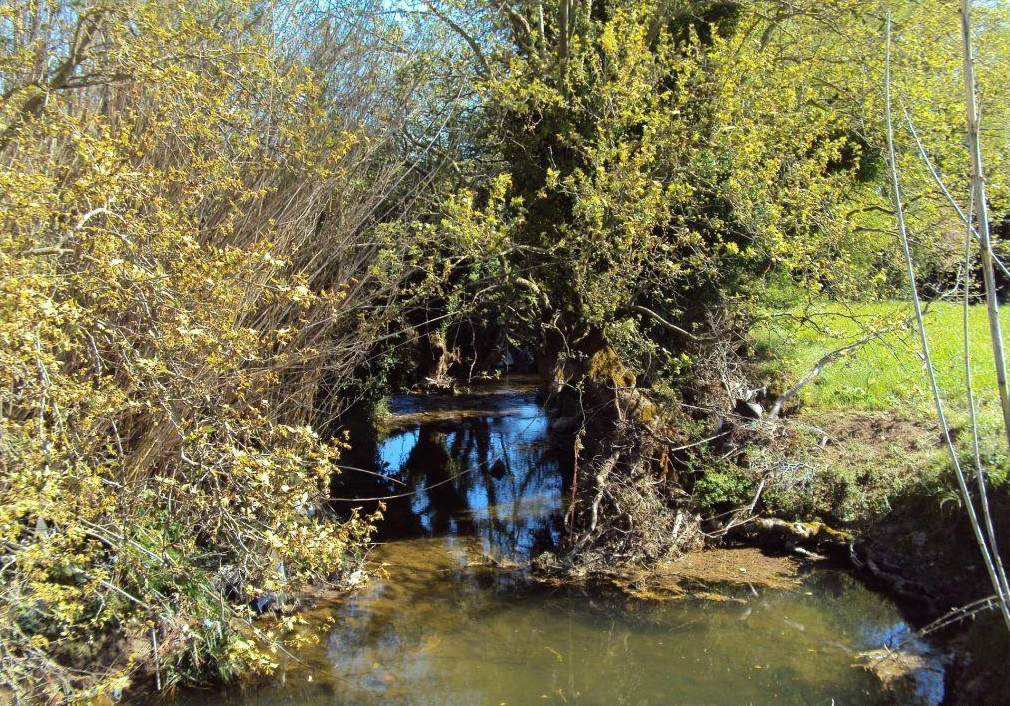 Voudouhliatiko torrent or Voudouhla torrent. View from Kato Mastrantoni village area, Achaia, Greece.